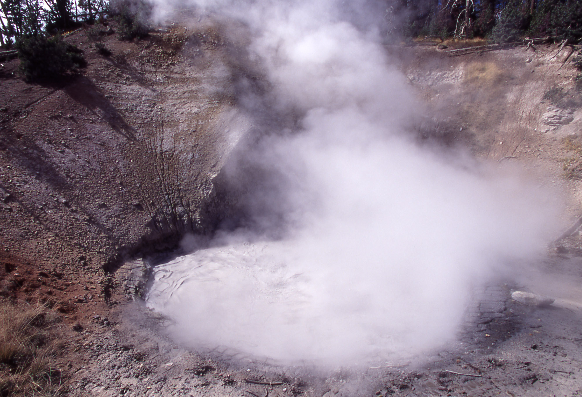 The hot spring/mud pot named Mud Volcano in Yellowstone National Park. Classification depends upon how much water is present. The feature is less active than when discovered. Photo dated 1998. Original caption: Mud volcano; Hot Springs, Mud Volcano area; Jim Peaco; September 1998